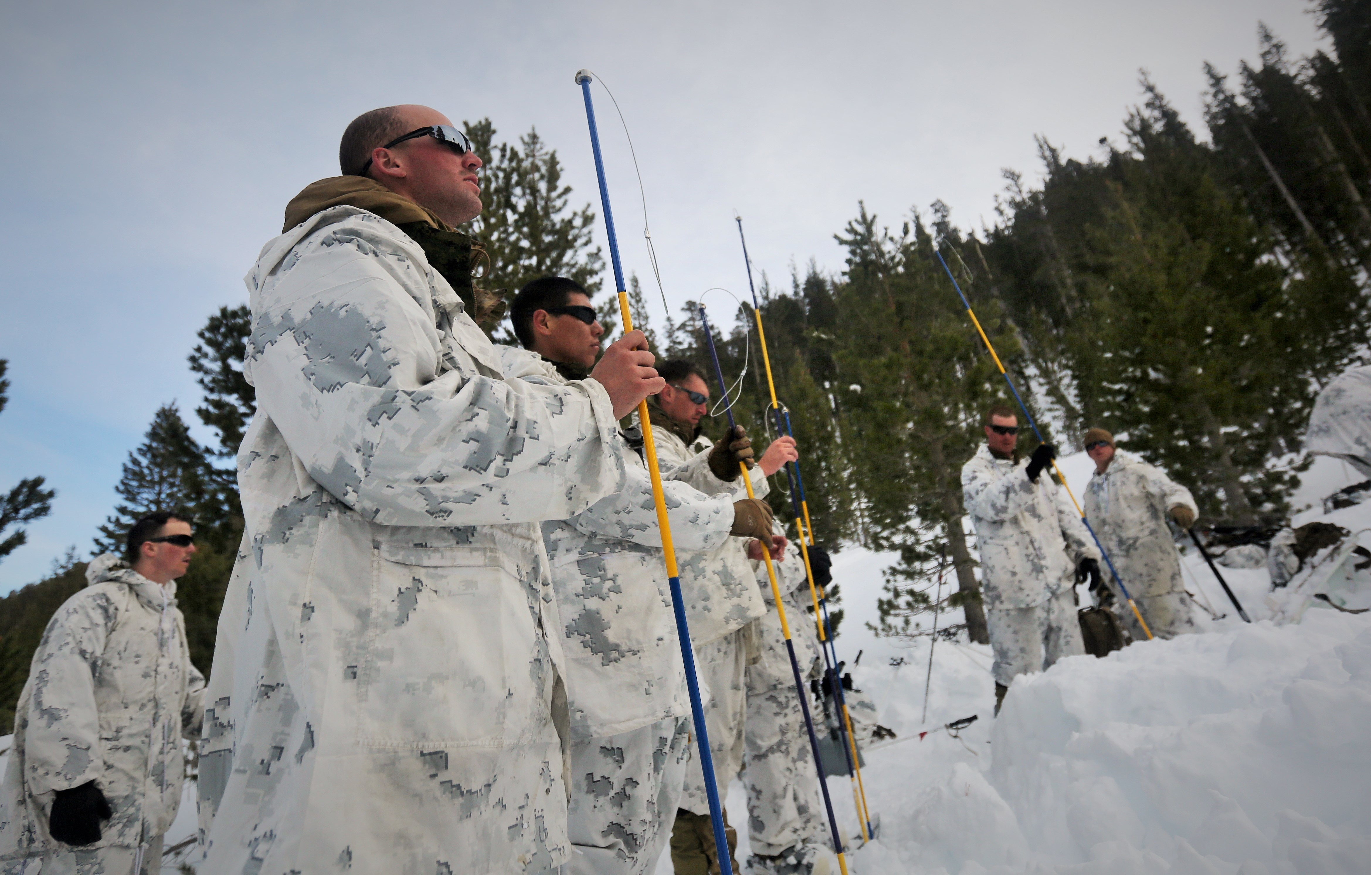 Marines with Alpha Company, 2nd Assault Amphibian Battalion, use avalanche probes in search for a simulated casualty during an avalanche scenario at the Mountain Warfare Training Center in Bridgeport Calif., Jan. 20, 2016. Marines across II Marine Expeditionary Force and 2nd Marine Expeditionary Brigade took part in the scenario as part of Mountain Exercise 1-16 in preparation for Exercise Cold Response 16.1 in Norway this March. The exercise will feature military training including maritime, land and air operations that underscore NATO's ability to defend against any threat in any environment. (U.S. Marine Corps photo by Cpl. Dalton A. Precht/released) Unit: II Marine Expeditionary Force